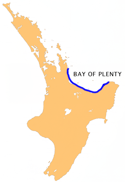 Location map of Bay of Plenty, New Zealand